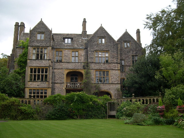 Glencot House. Historical house having been a crammer school in the 1950's has now been restored and is a beautiful restaurant and inn with beautifully restored gardens.